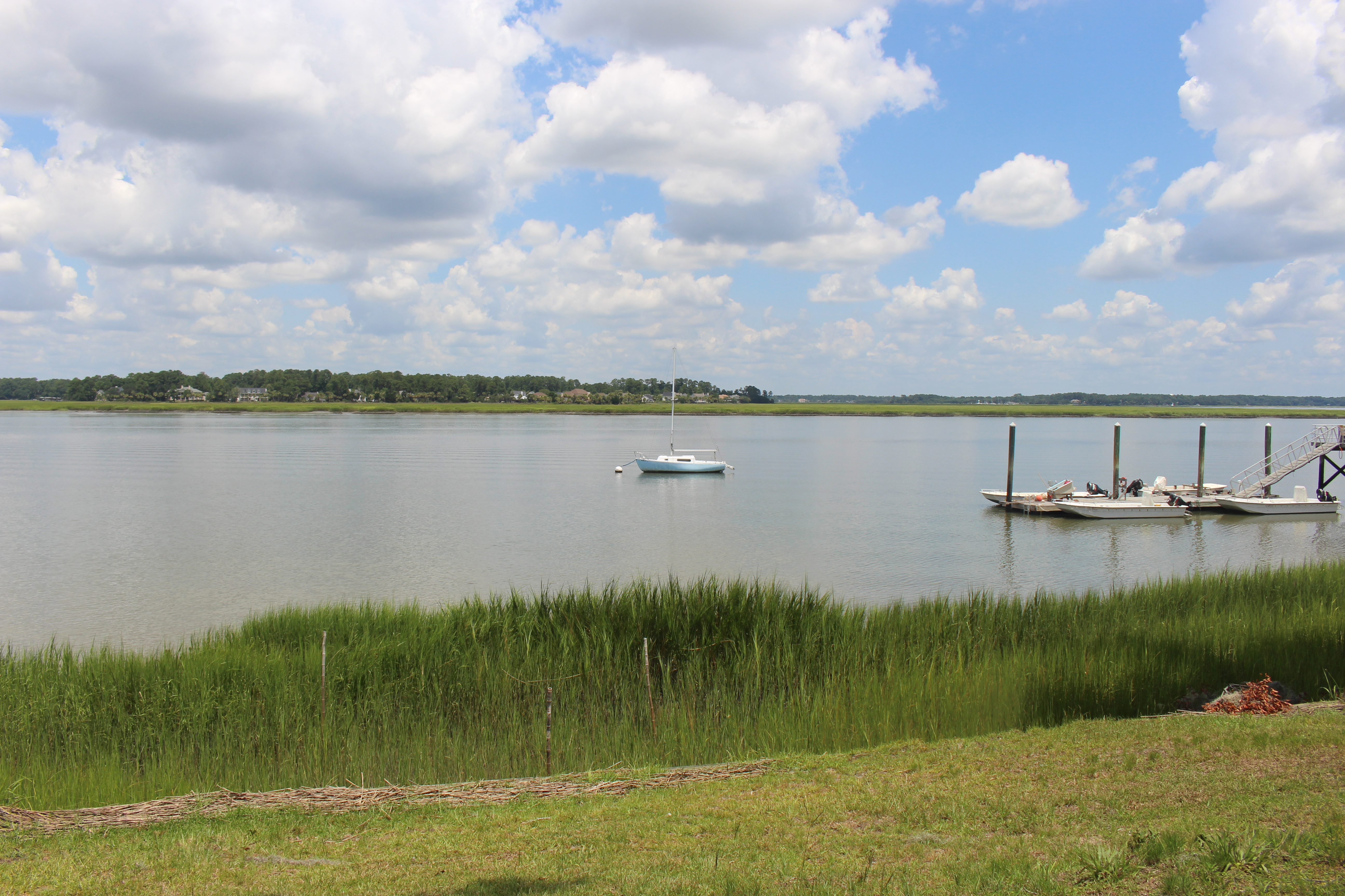 Skidaway Insititute of Oceanography, Skidaway Island, Chatham County, Georgia